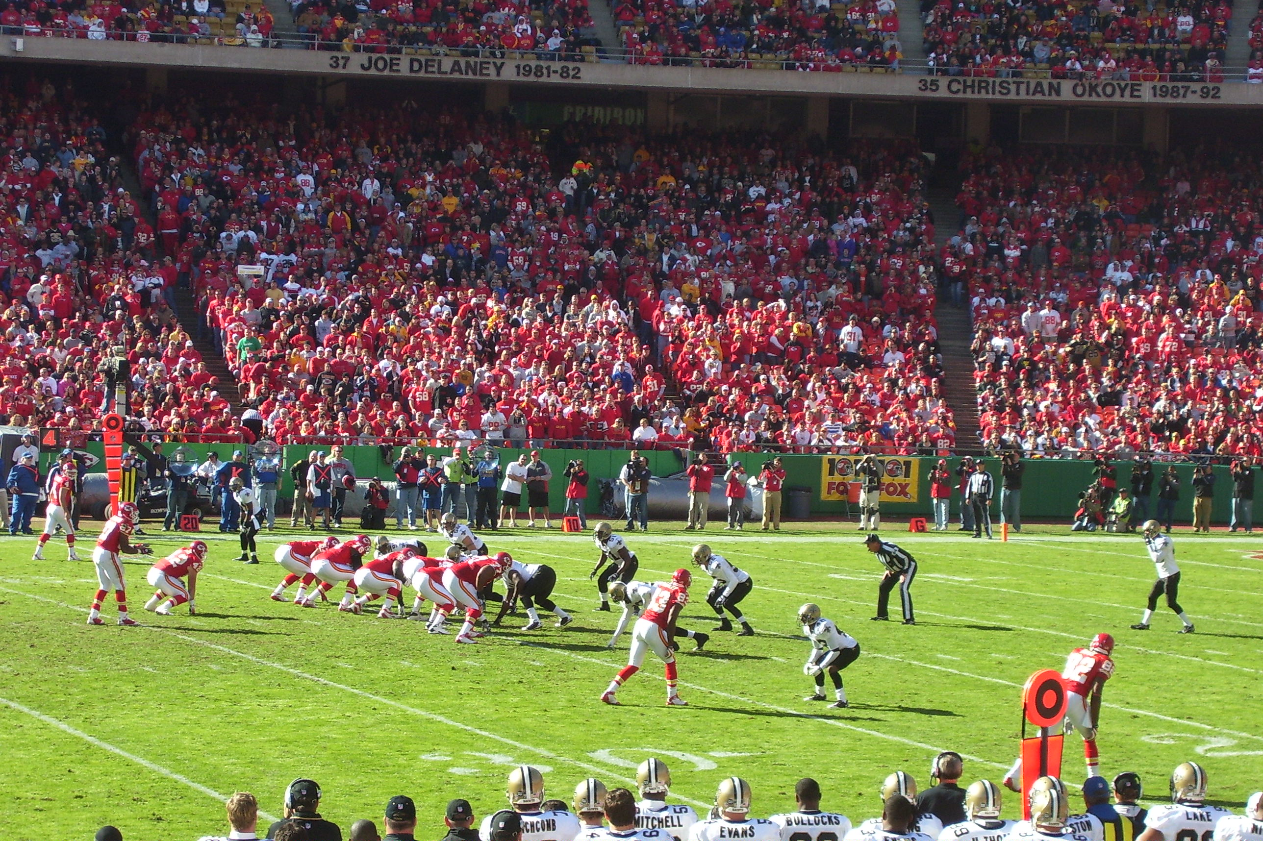 Chiefs running back Larry Johnson lines up on offense as the quarterback in a Wildcat formation. November 16, 2008. New Orleans Saints at Kansas City Chiefs, Arrowhead Stadium in Kansas City, MO.